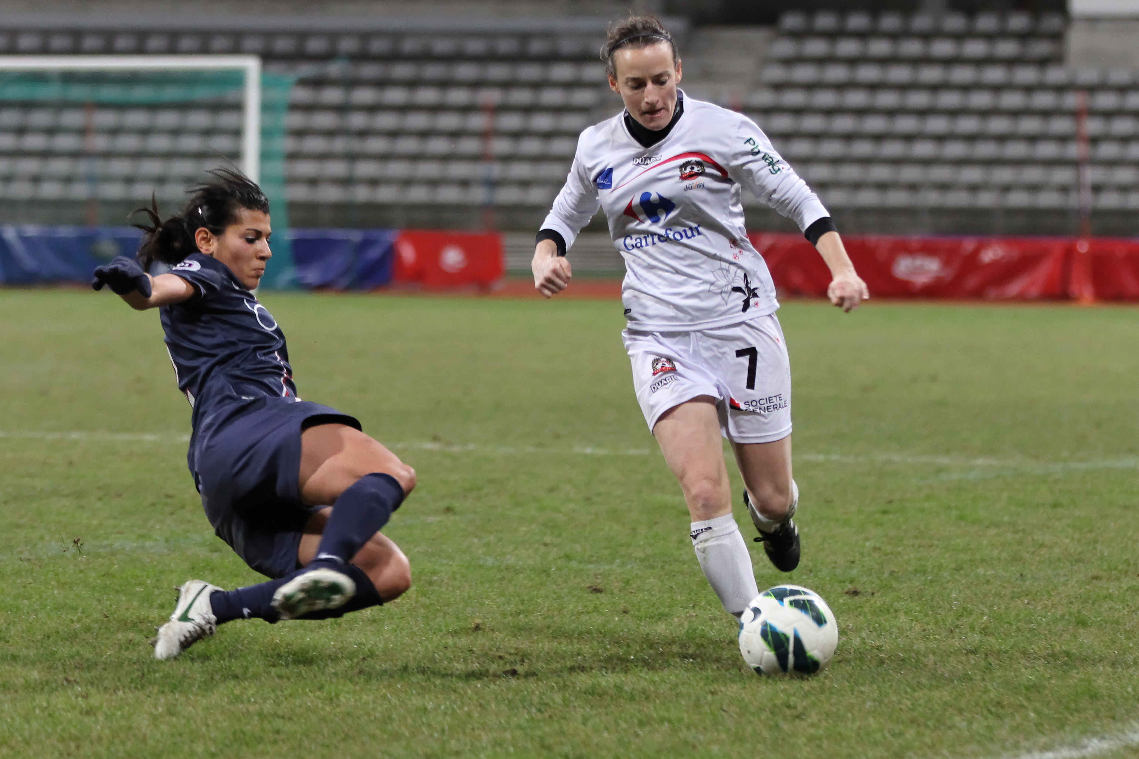 PSG-Juvisy, december 9th, 2012. Kenza Dali (PSG) and Émilie Trimoreau (Juvisy).